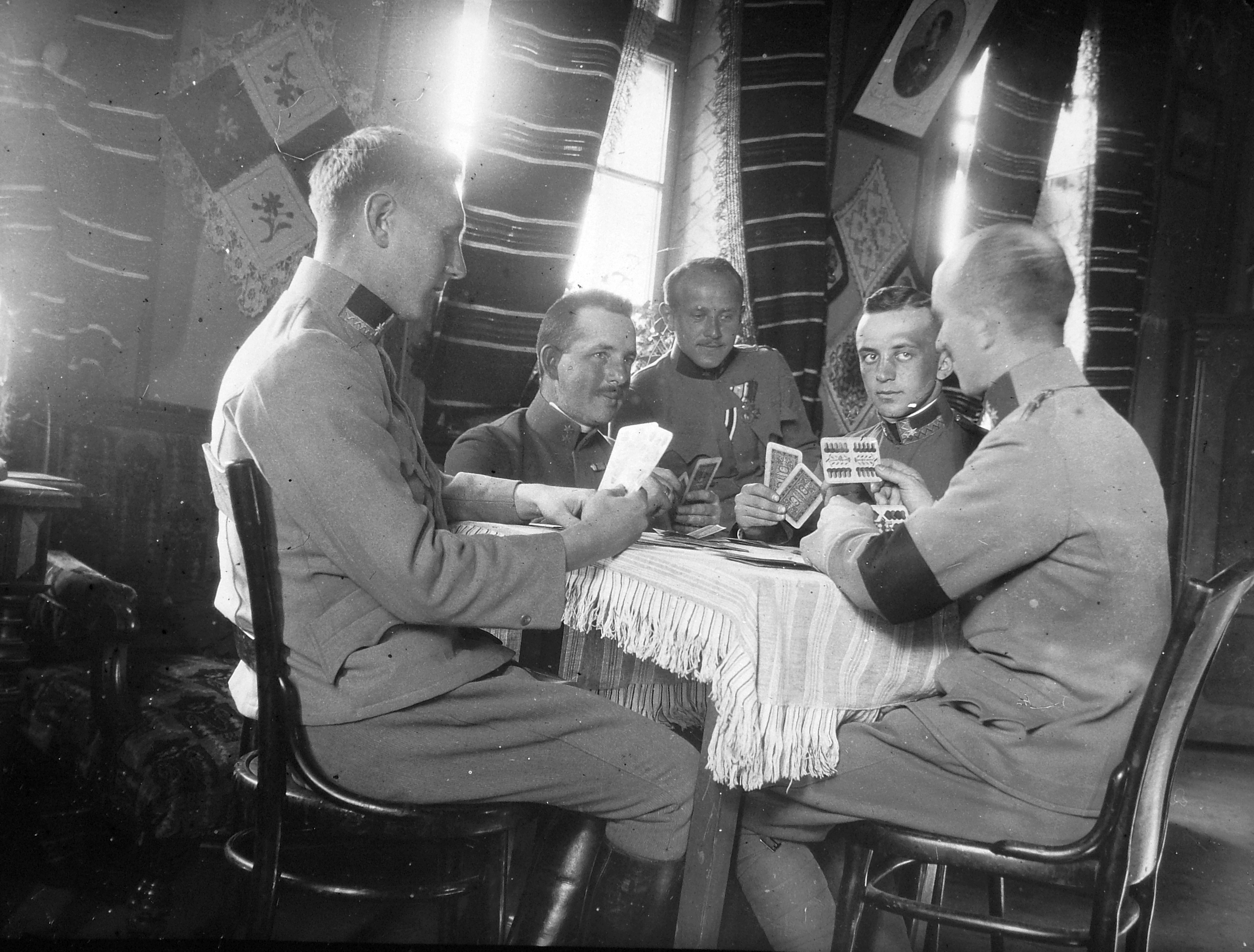 Tags: First World War, card game, free time, men, uniform, tableau, restaurant